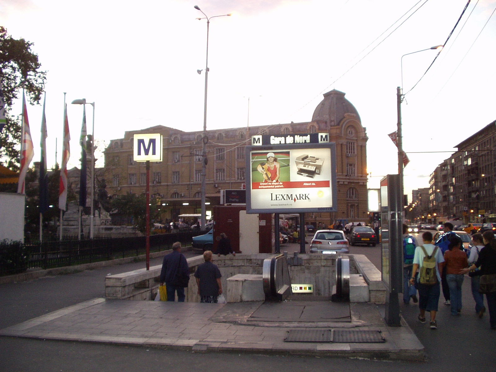 The following is the author's description of the photograph quoted directly from the photograph's Flickr page. "entrance to a metro station in bucharest "